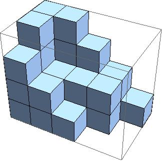 Example of a self complementary plane partiotn